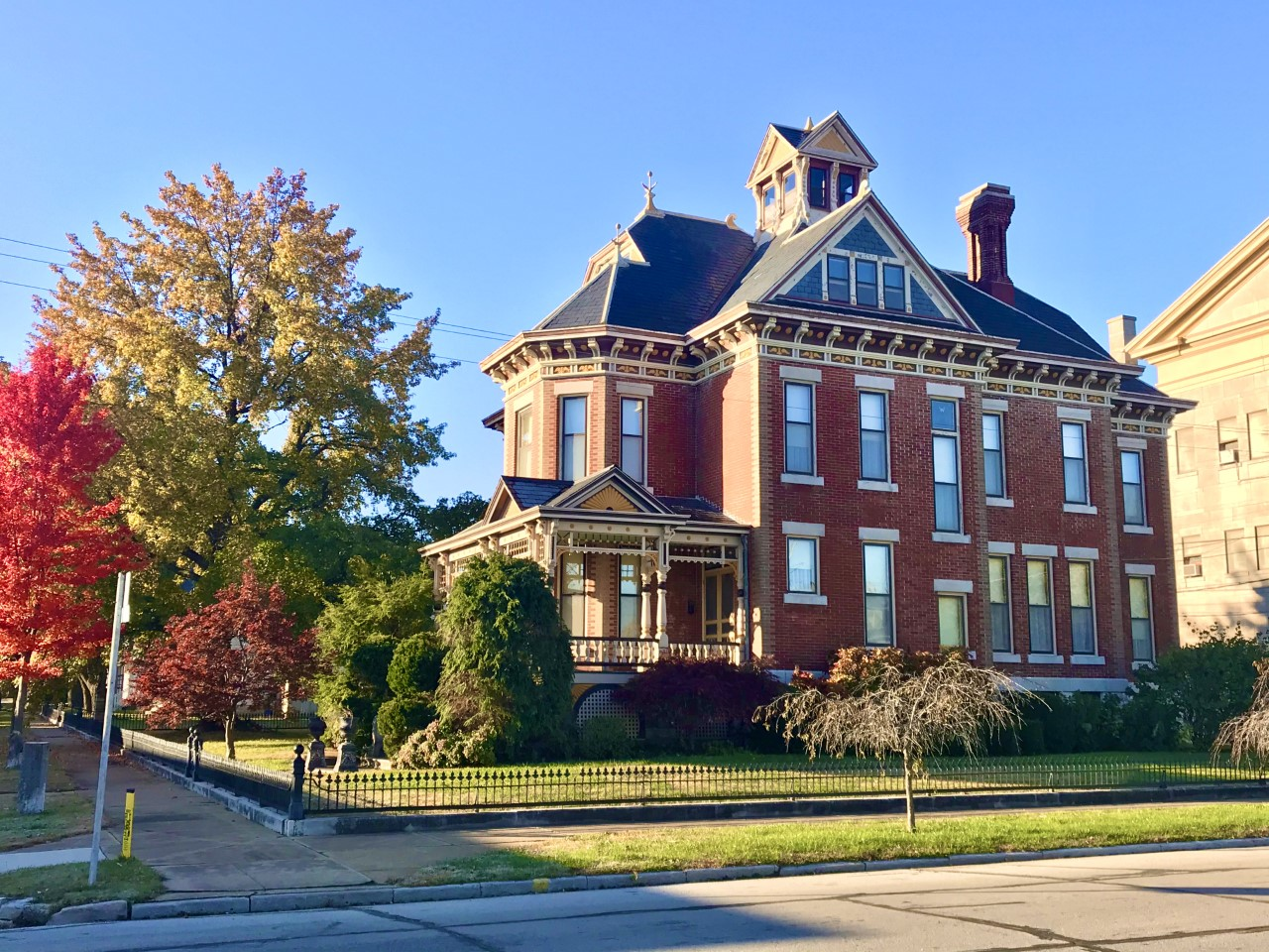 Elijah Thomas Webb House